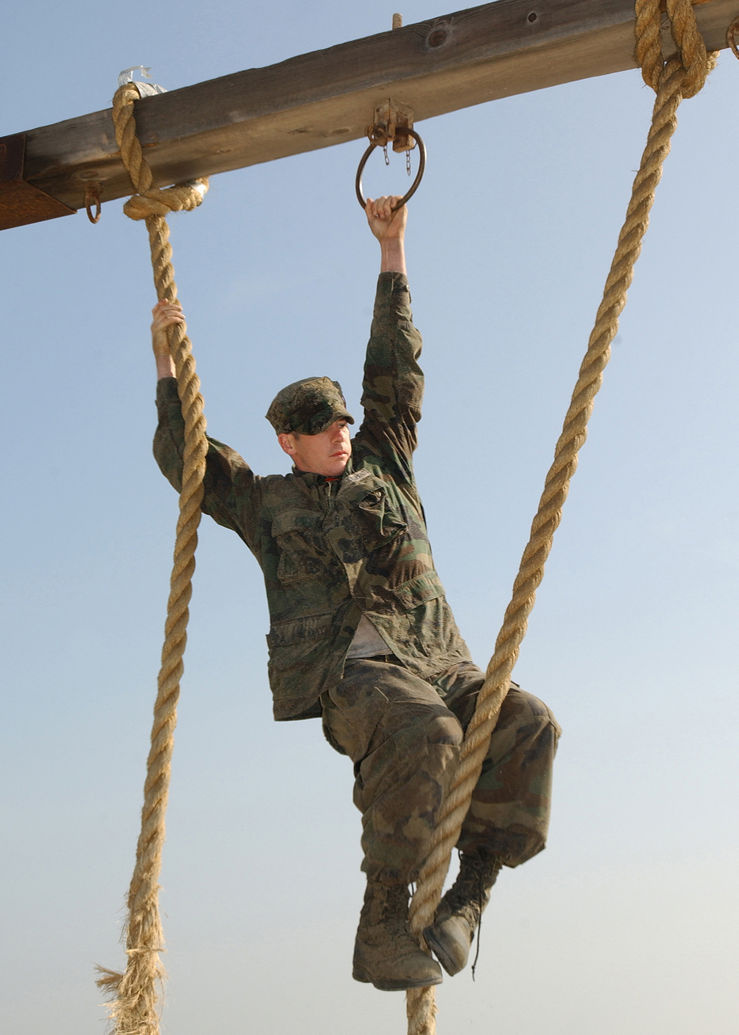 Naval Amphibious Base Coronado, San Diego, Calif. (Jan. 31, 2003) - A Sailor assigned to Basic Underwater Demolition/SEAL (BUD/S) Class 244 navigates an obstacle course at the training facility aboard Naval Amphibious Base Coronado. U.S. Navy photo by Photographer's Mate 3rd Class John DeCoursey. (RELEASED)